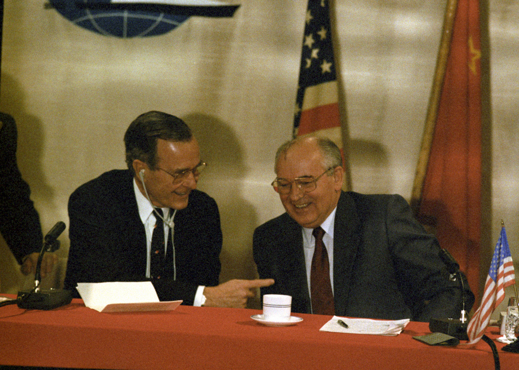 “US president George Bush and General Secretary of the Communist Party of the Soviet Union, Chairman of the Supreme Soviet of the USSR Mikhail Gorbachev”. US president George Bush and General Secretary of the Communist Party of the Soviet Union, Chairman of the Supreme Soviet of the USSR Mikhail Gorbachev at the official meeting in Valletta.